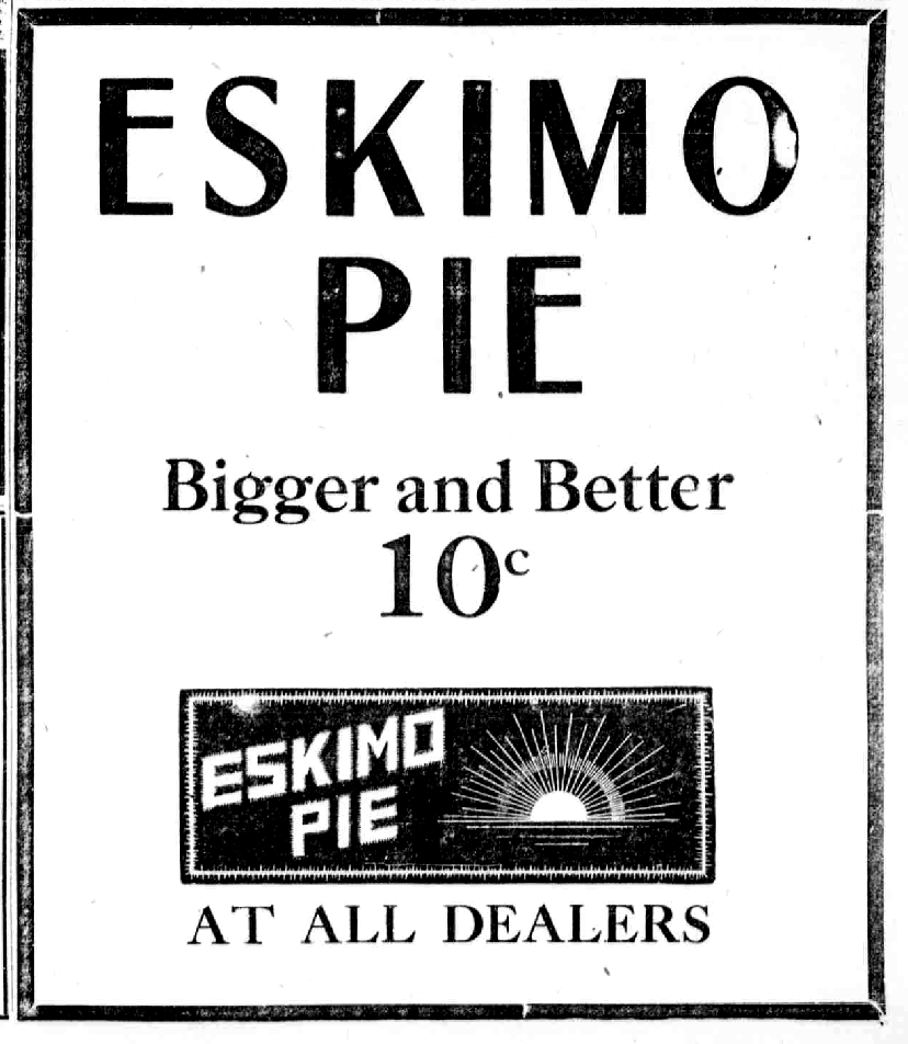 Newspaper ad for Eskimo Pie from 1922.